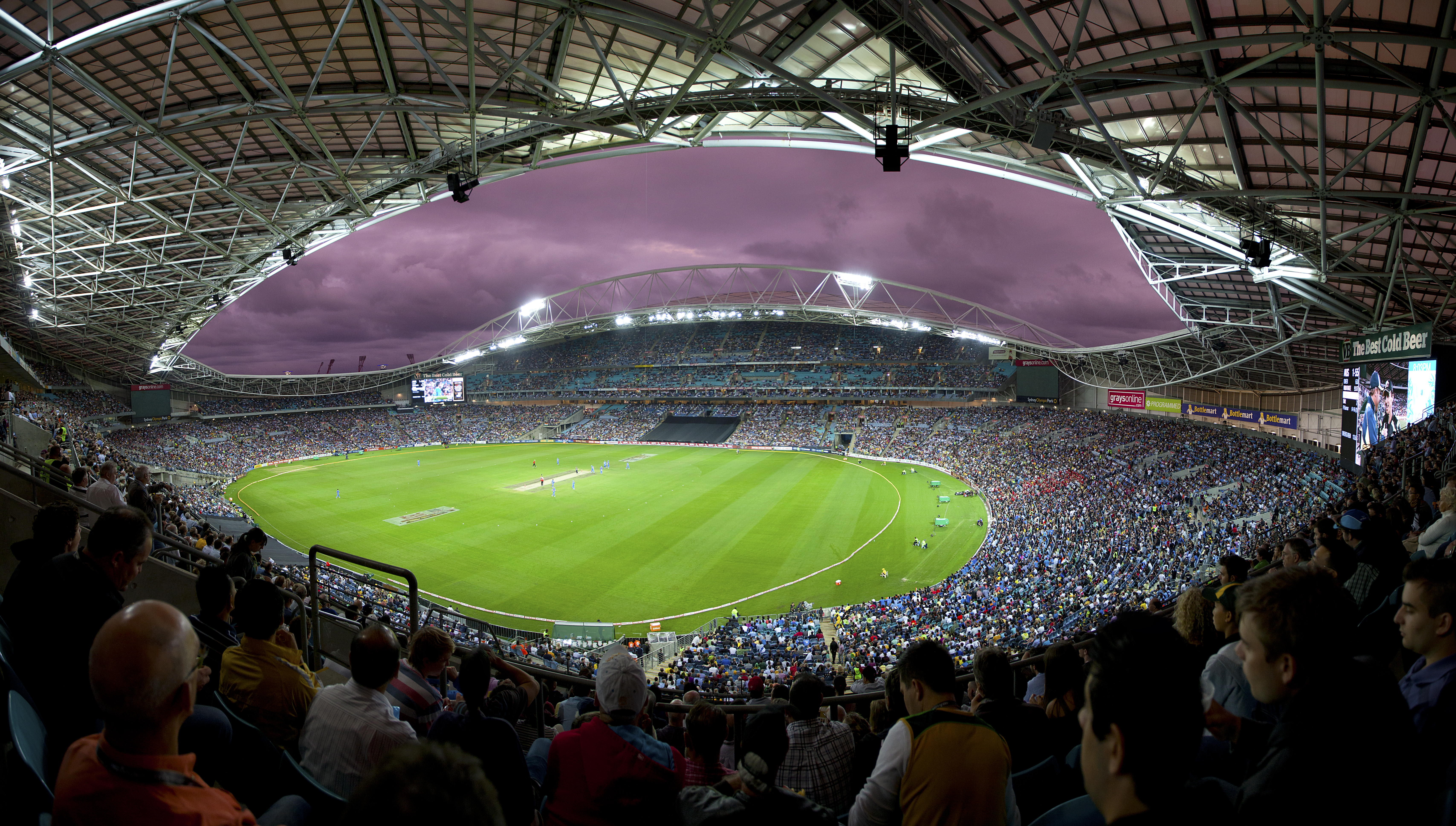 Stadium Australia's first international cricket match. T20, Australia v India, Wednesday February 1, 2012.